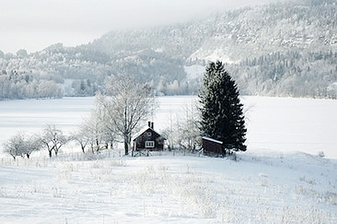 Lake Semsvannet, Asker, Norway